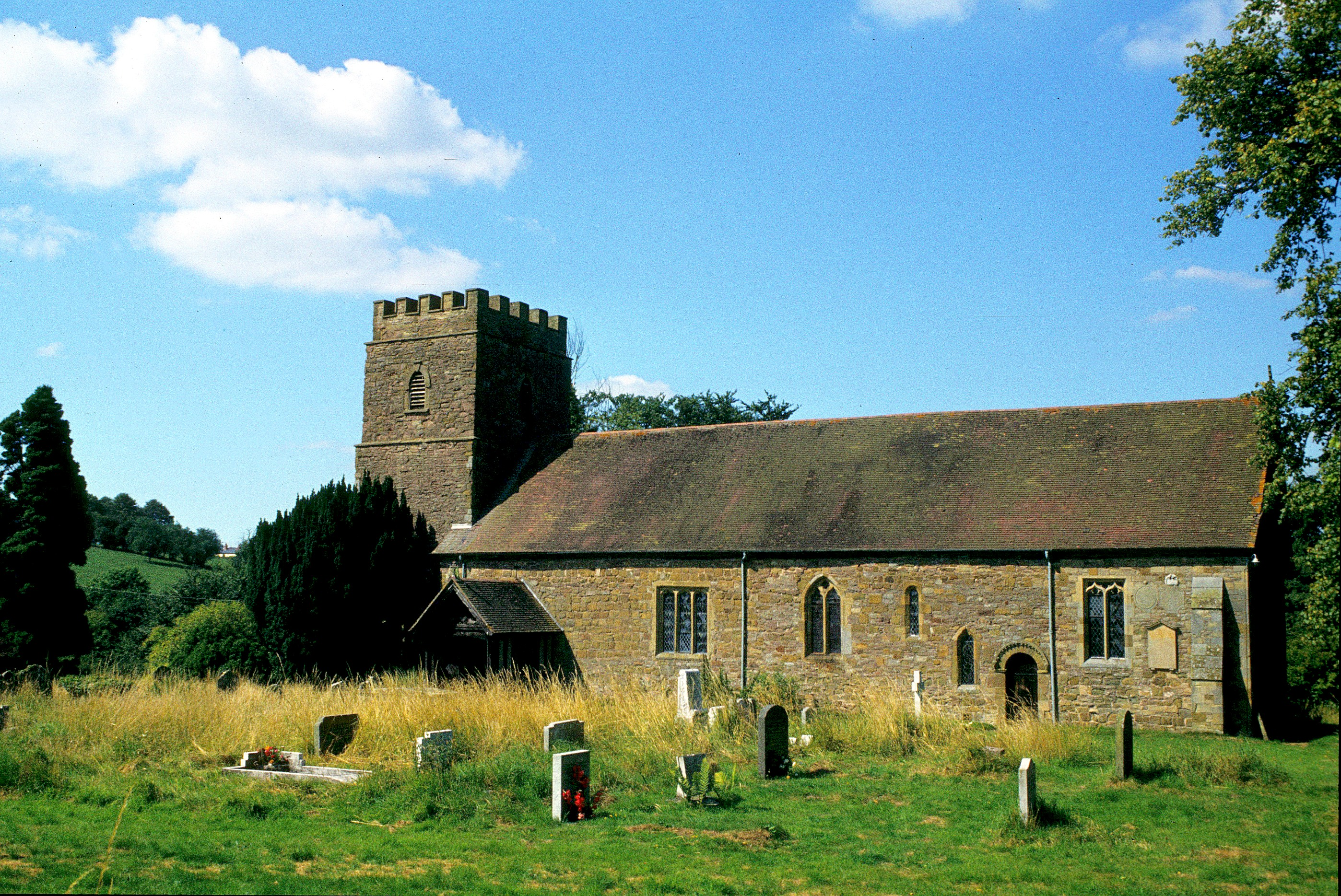 Church Of St Mary Wikidata has entry Q17539026 with data related to this item.